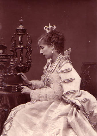 French stage actress Sarah Bernhardt (1844-1923) as Queen in Victor Hugo’s Ruy Blas.